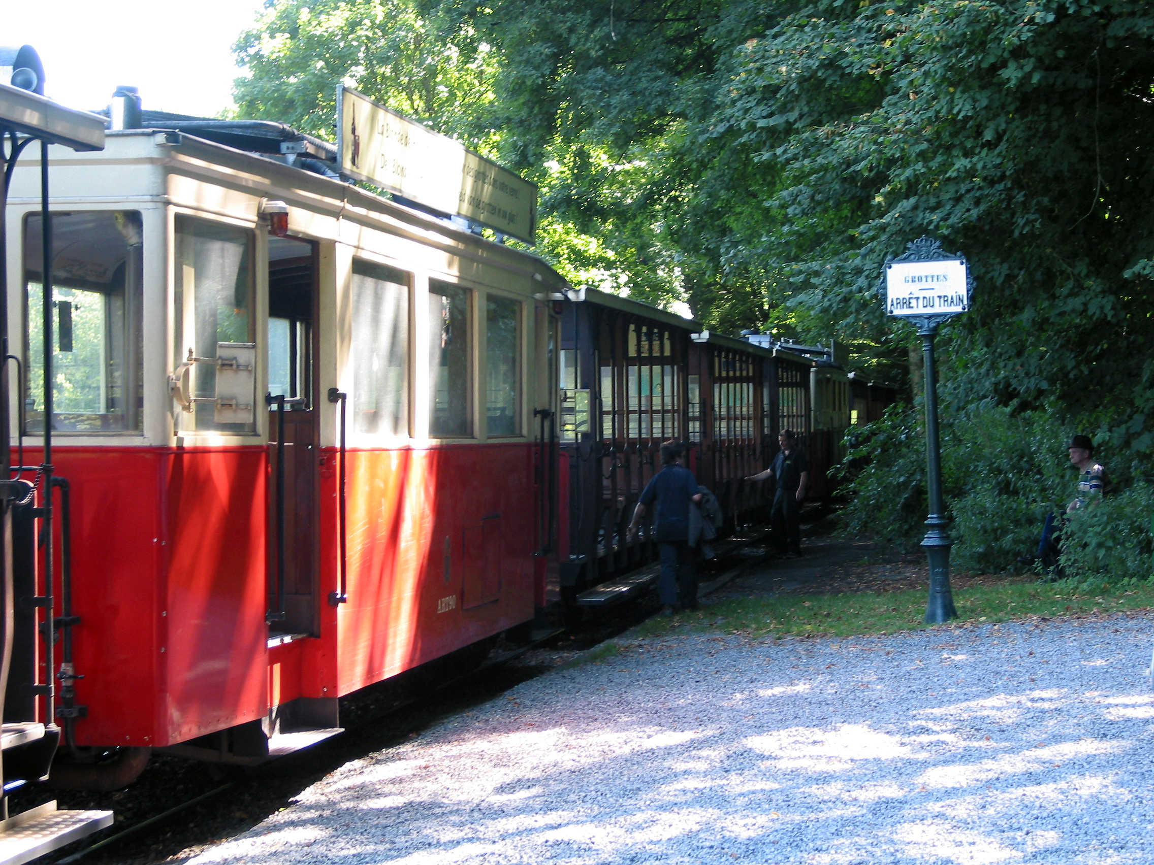 Han-sur-Lesse (Belgium), the tram of the caves.